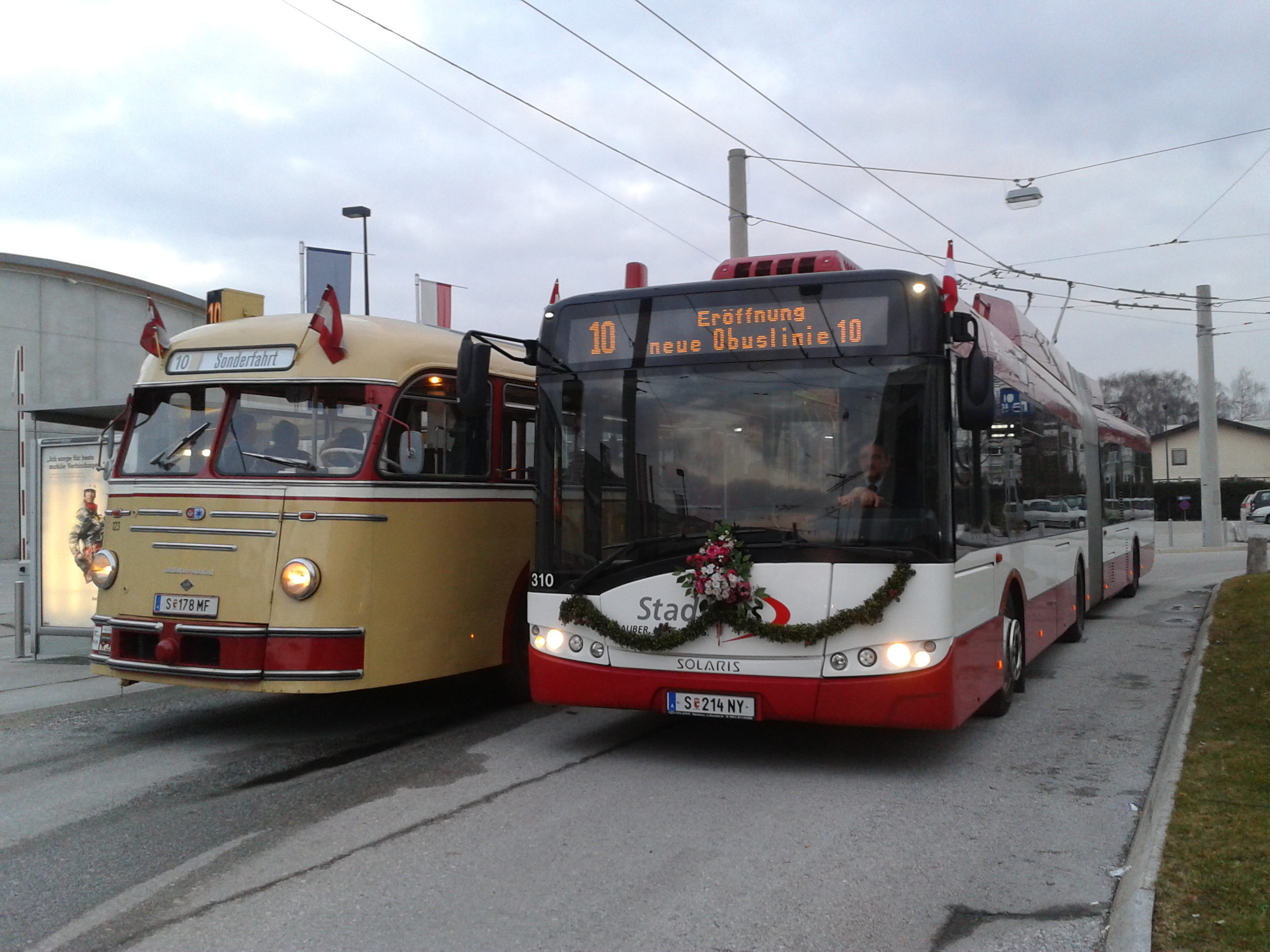 The opening of new trolleybus line 10 in Salzburg, March 2012, with preserved Henschel-built trolleybus 123 and Solaris Trollino trolleybus 310.